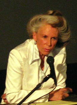 Catharine MacKinnon speaking at the Brattle Theatre, Cambridge, MA. 8 May, 2006.